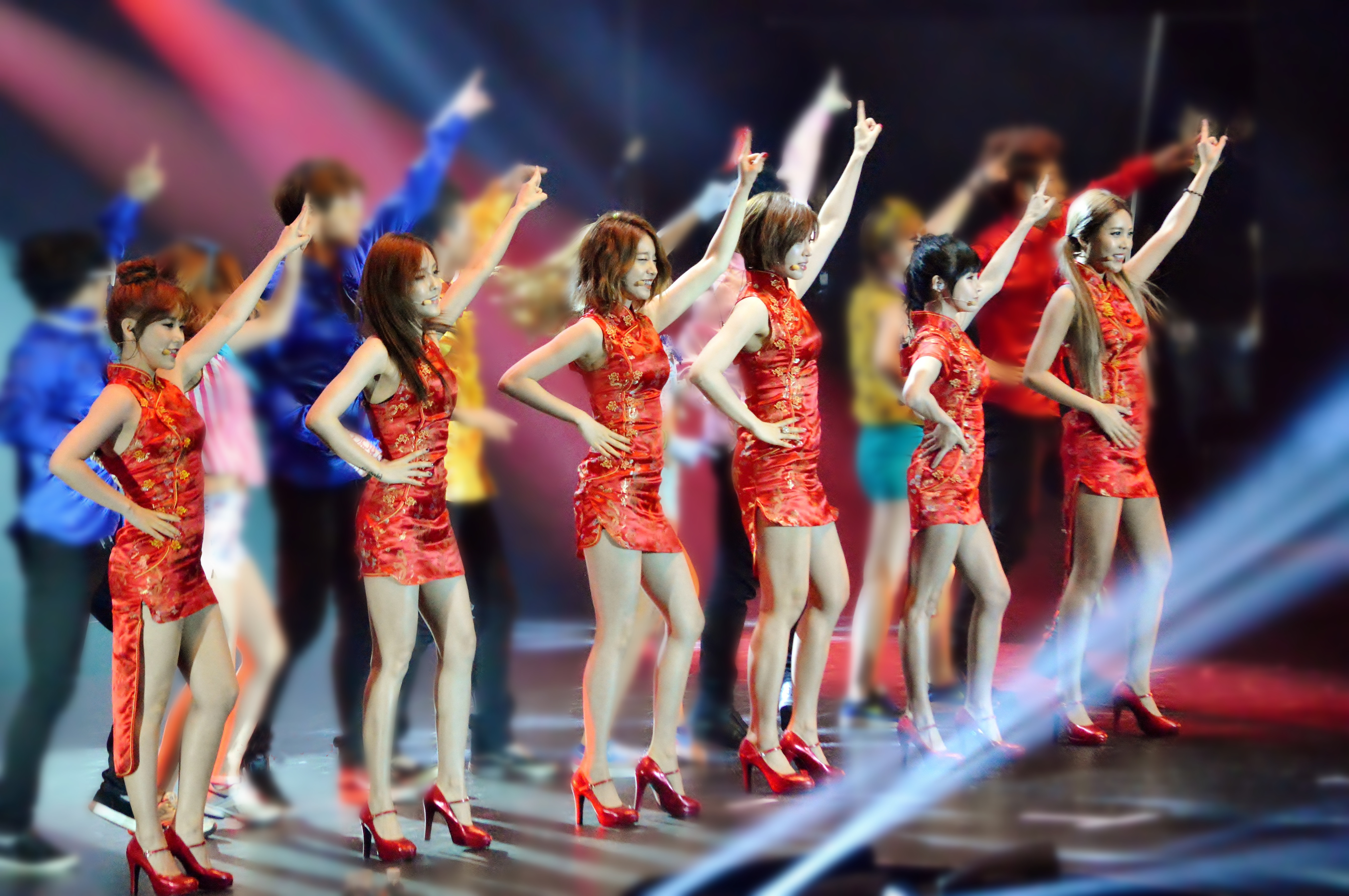 T-ara performing in Hong Kong, in 10 August 2013. (From left to right: Soyeon, Hyomin, Jiyeon, Eunjung, Boram and Qri)